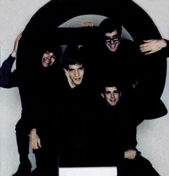 Trade ad for The Cyrkle's single "We Had A Good Thing Goin".To better adapt it to his respective Wikipedia article, the ad was cropped and cleaned in a graphics editing program. The original can be viewed at the source below.